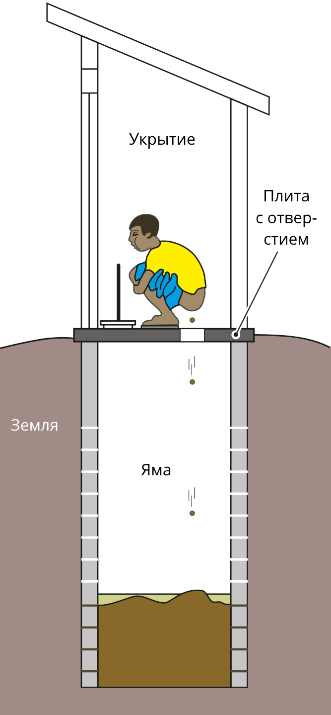 Schematic of a simple pit latrine